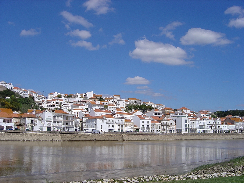 City of Alcácer do Sal, Alentejo, Portugal